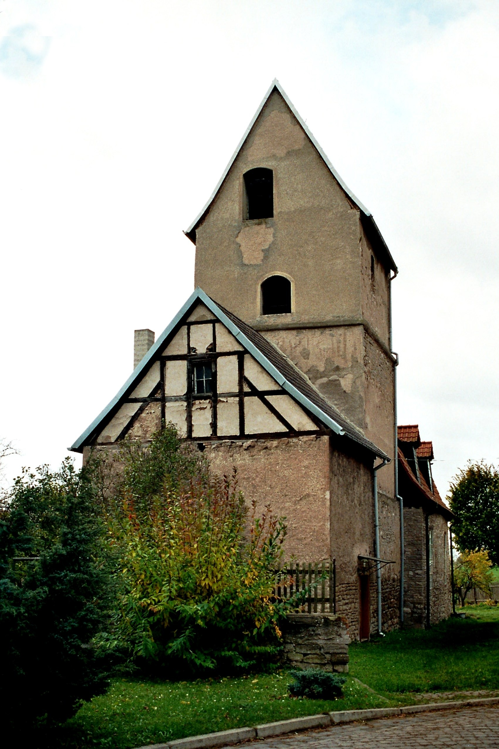 Drebsdorf (Südharz), the village churchThis is a photograph of an architectural monument. 81687